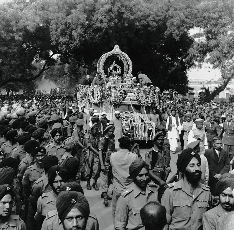 The ashes of Mahatma Gandhi being carried in a procession in Allahabad.